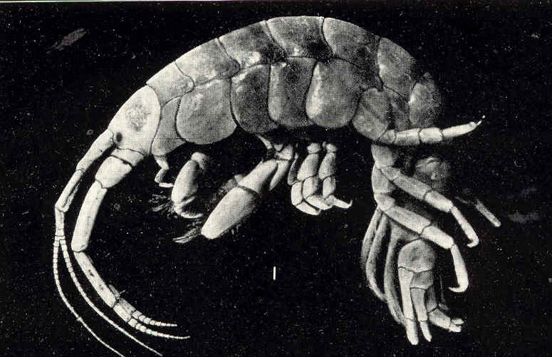 Amphithoe rubricata. Near Woods Hole Subject: Amphipoda, Amphithoe Tag: Invertebrates